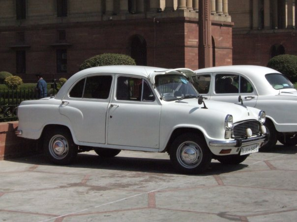 Indian Government Hindustan Ambassador Nova outside New Delhi Secretariat